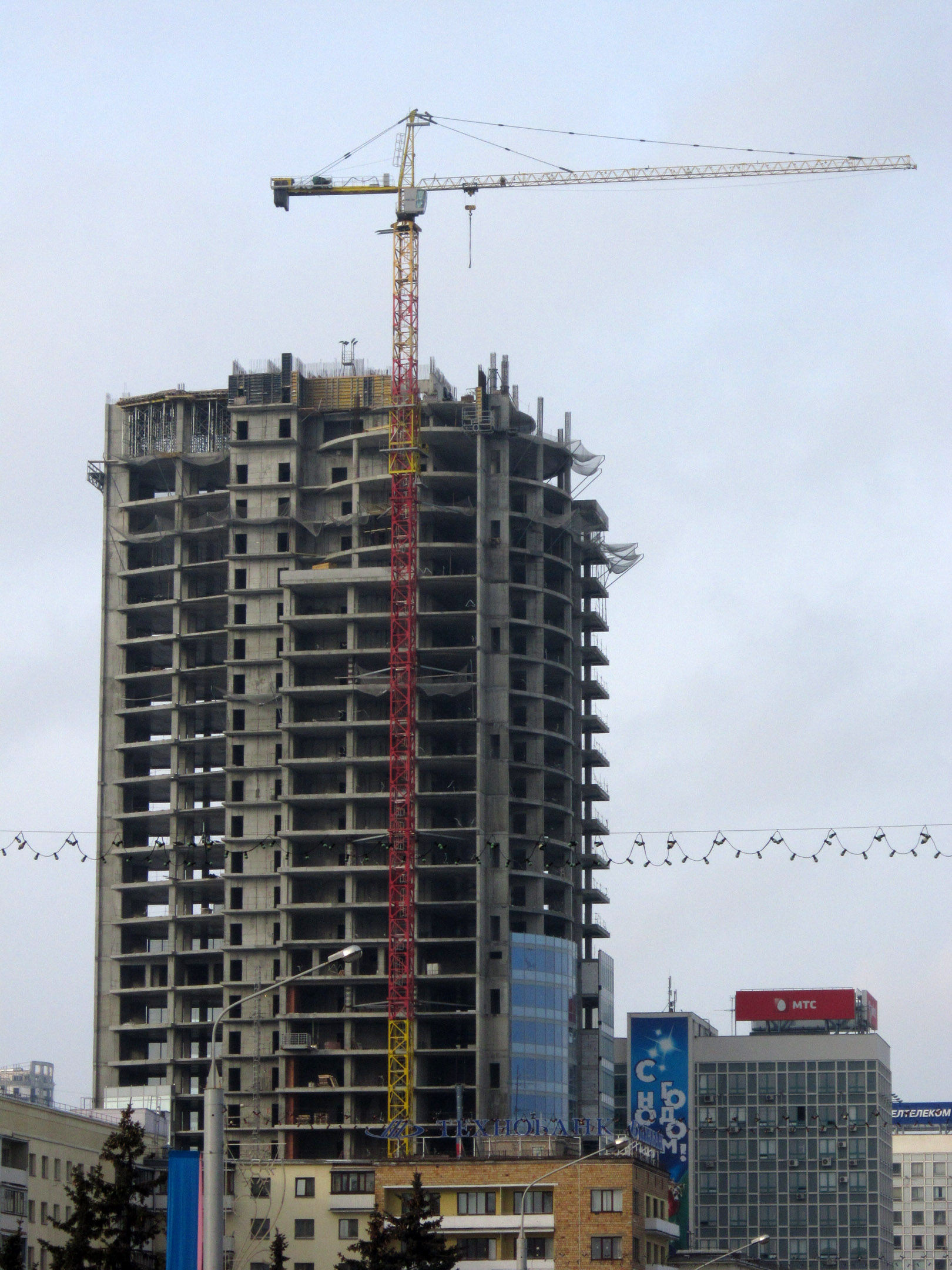 Building of Royal Plaza in Minsk